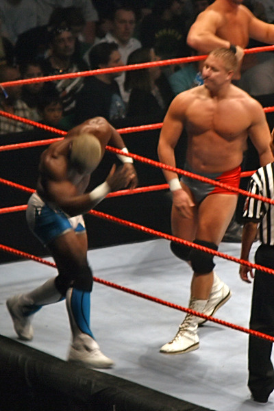 Lance Cade slaps Shelton Benjamin at the start of the match. Taken during the WWE Raw - Survivor Series Tour, at Rod Laver Arena, Melbourne Park, Melbourne, Australia. This was a triple threat match for the tag titles, with Cade and Trevor Murdoch as champions against The Highlanders and The World's Greatest Tag Team (Shelton Benjamin and Charlie Haas). Cade and Murdoch won the match when Cade pinned Robbie McAllister from the Highlanders following a Benjamin superplex on Robbie.